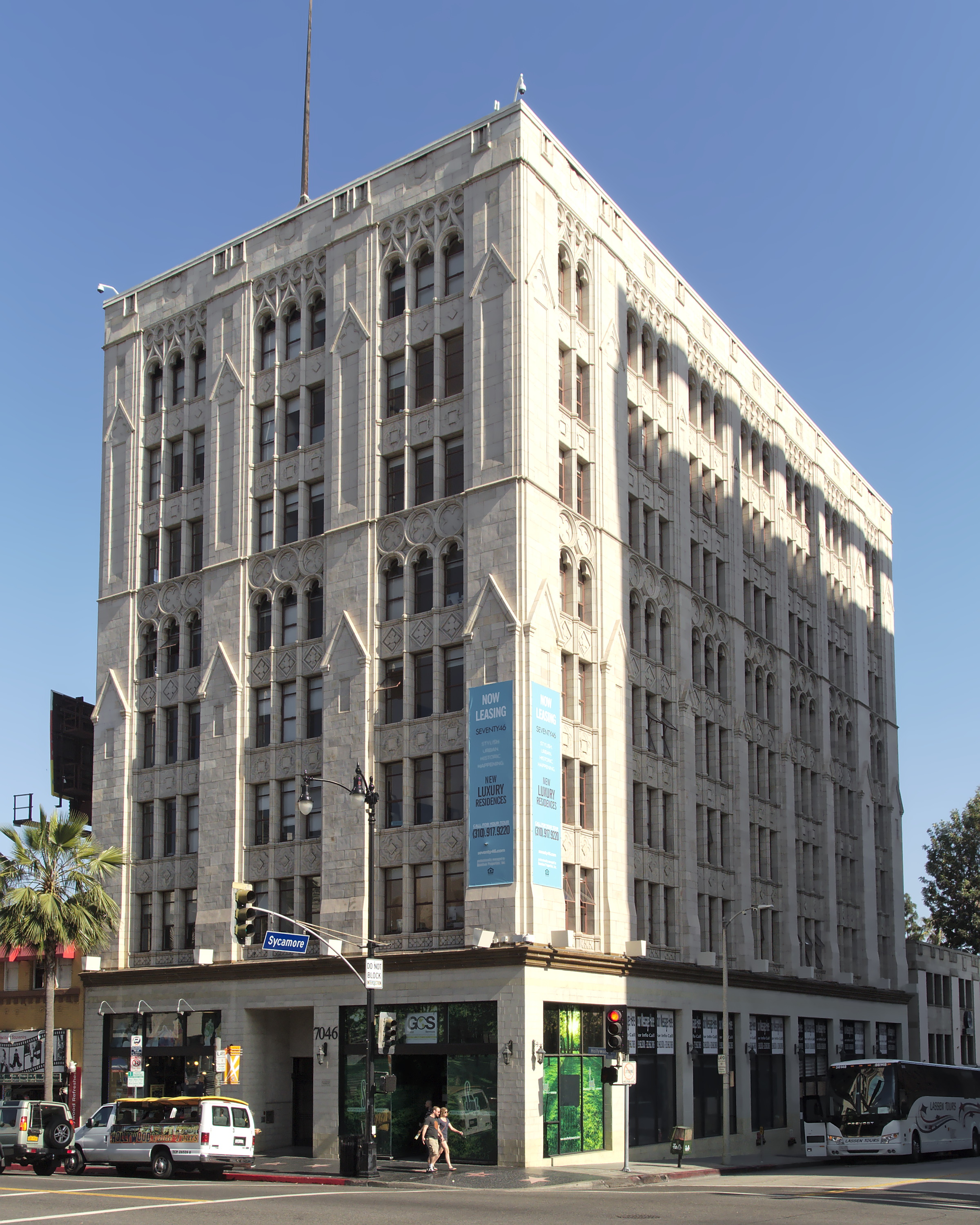 Hollywood Professional Building, 7046 Hollywood Blvd. LAHCM #876. View from the northwest.